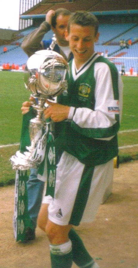 English footballer Adam Stansfield holding the FA Trophy following Yeovil's victory in the 2002 FA Trophy Final at Villa Park.